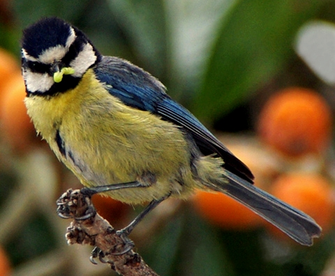 African Blue Tit Parus teneriffae.